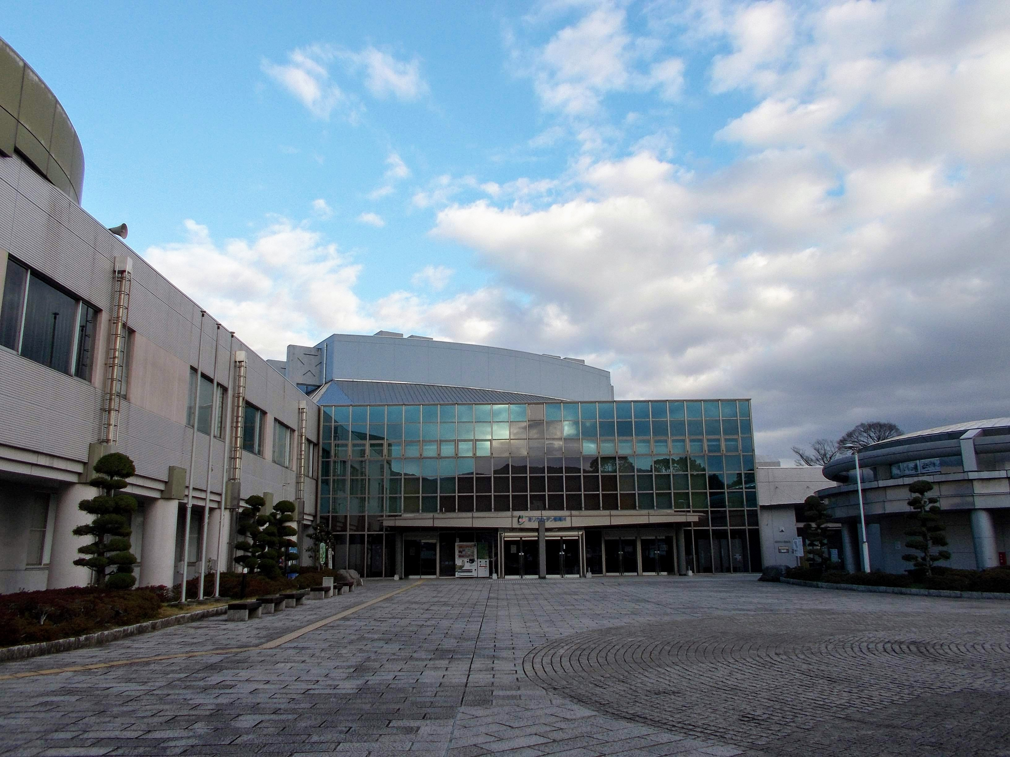 Myrica Roden Nakagawa is a multipurpose facility in Nakagawa, Fukuoka, Japan.